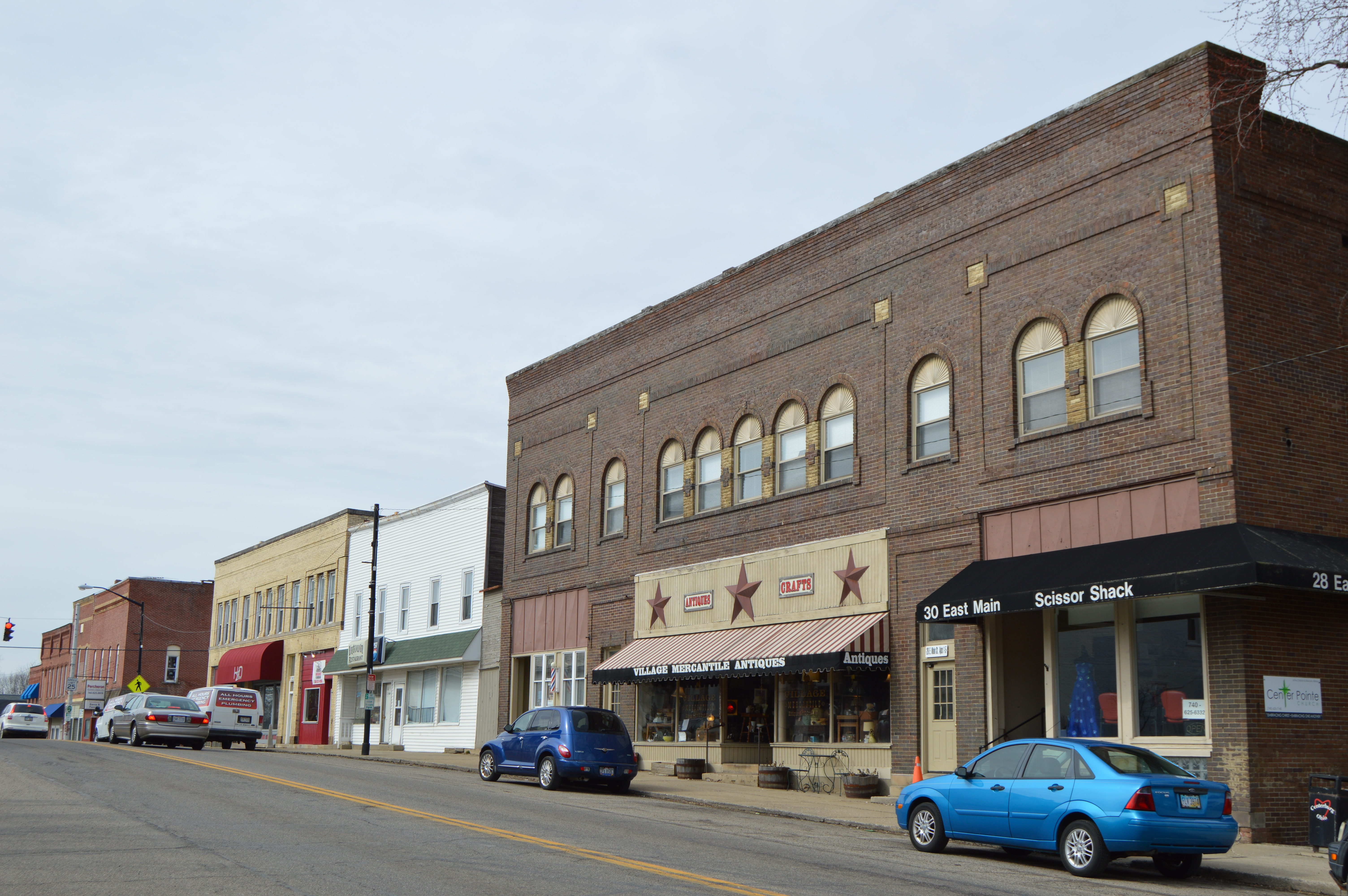 Buildings on the northwestern side of the first block of E. Main Street (U.S. Route 36/State Route 3) in downtown Centerburg, Ohio, United States.